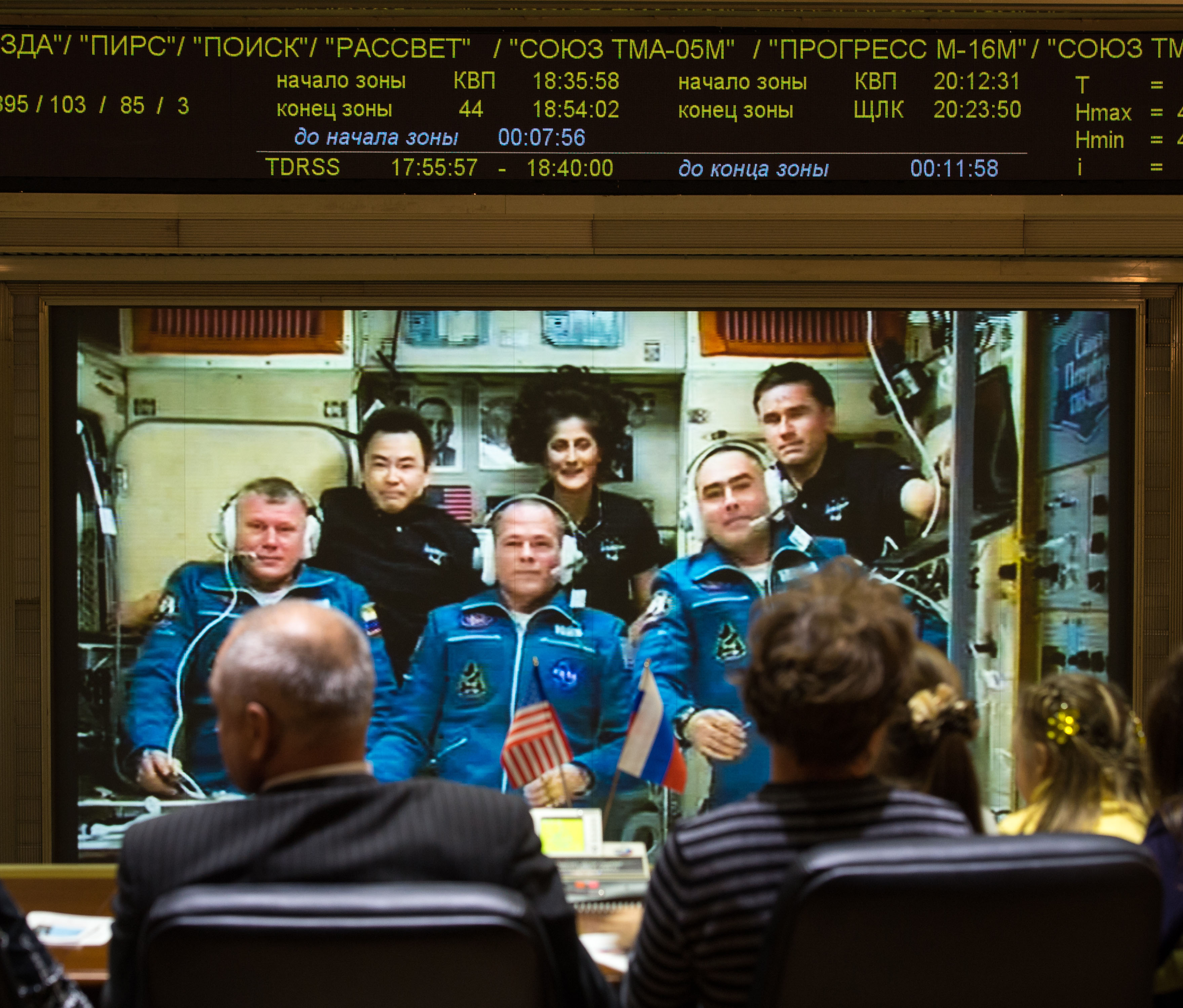 Family of the newly arrived International Station Expedition 33 crew members, Russian cosmonaut Oleg Novitskiy, front left, NASA astronaut Kevin Ford, front center, and Russian cosmonaut Evgeny Tarelkin, front right, talk via phone to the crew from the Russian Mission Control Center in Korolev, Russia shortly after the three joined Flight Engineer Aki Hoshide of the Japan Aerospace Exploration Agency, back left, Expedition 33 Commander Sunita Williams of NASA, back center, and Yuri Malenchenko of the Russian Federal Space Agency on Oct. 25, 2012.